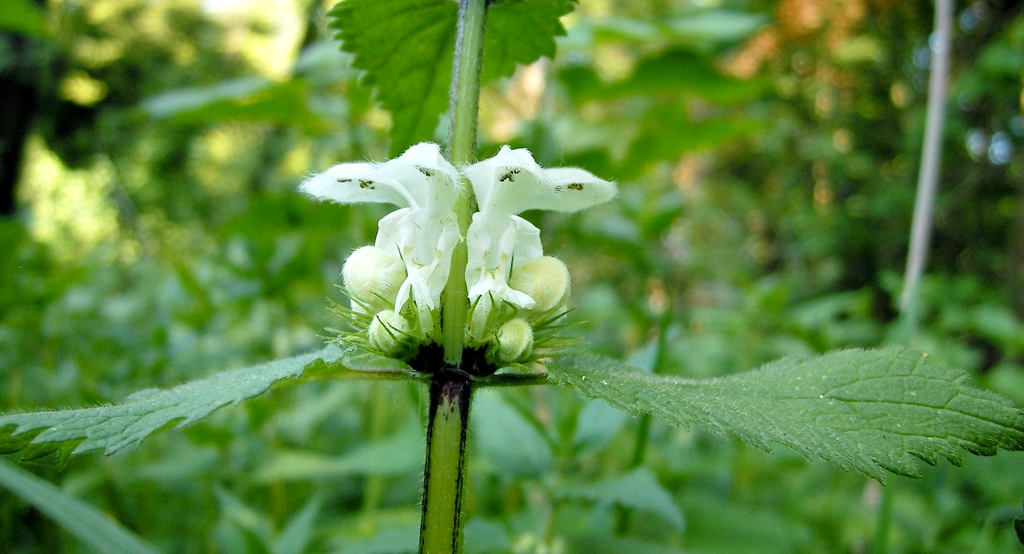 Lamium album, Germany.